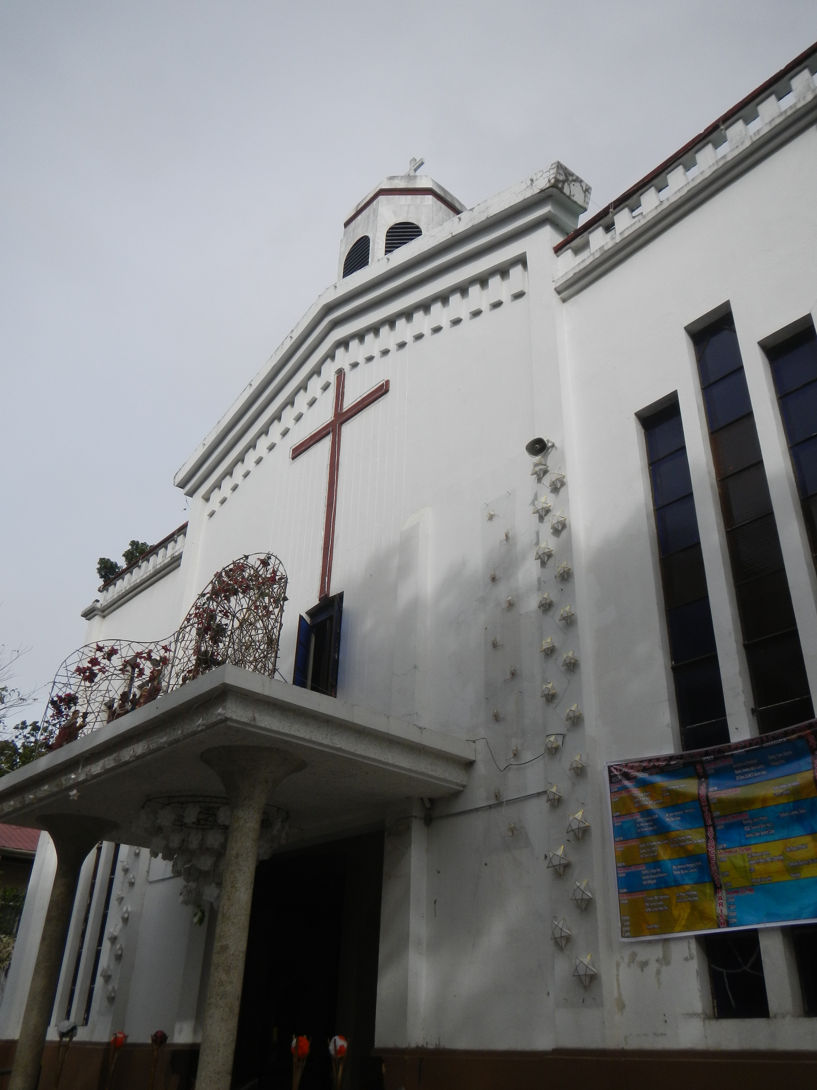 Wedding at St. John the Evangelist Parish Church of Guimba, (Faigal street, Saint John District, Barangays Santa Veronica District (Poblacion) and Saint John District (Poblacion), Guimba, Nueva Ecija, Nueva Ecija Province).